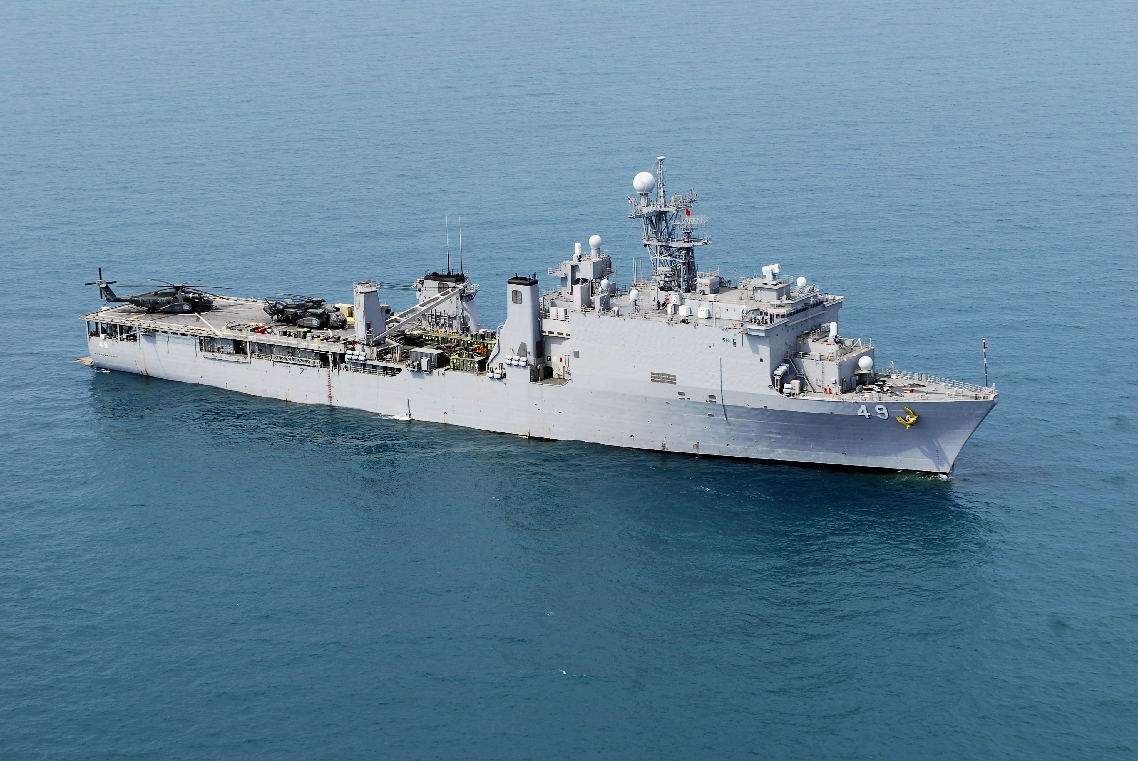 080508-N-4010S-103 GULF OF THAILAND (May 8, 2008) The amphibious dock landing ship USS Harpers Ferry (LSD 49) at anchor in the Gulf of Thailand. Harpers Ferry is part of the Essex Expeditionary Strike Group and is participating in Cobra Gold 08, a joint military exercise sponsored by the United States and Thailand designed to enhance interoperability between joint U.S. forces and the combined forces of the Thai, Singaporean, Japanese and Indonesian militaries. U.S. Navy photo by Chief Mass Communication Specialist Ty Swartz (Released)